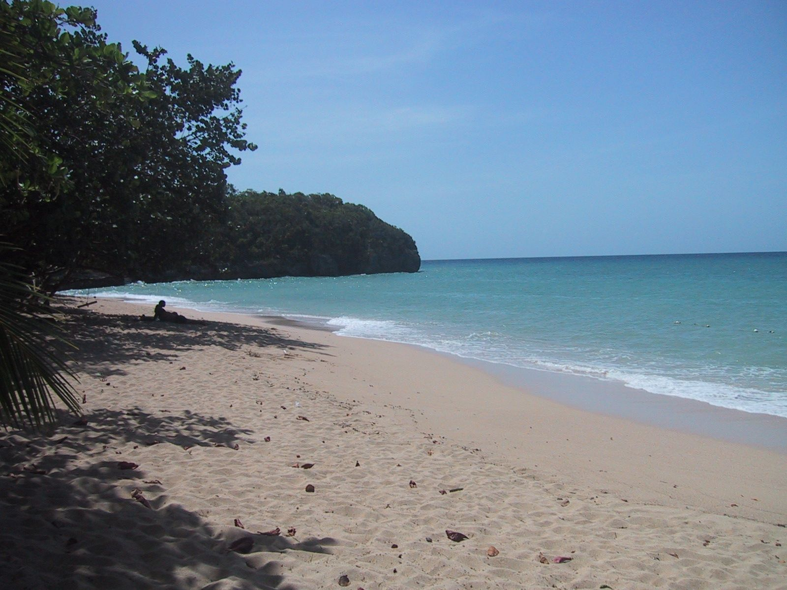 I took this picture of Reggae Beach in Dec. 2010, using my own camera.